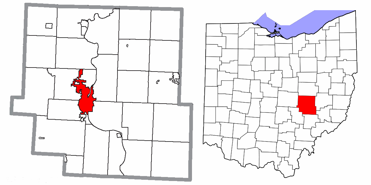 Map highlighting City of Zanesville, Muskingum County, Ohio, United States.